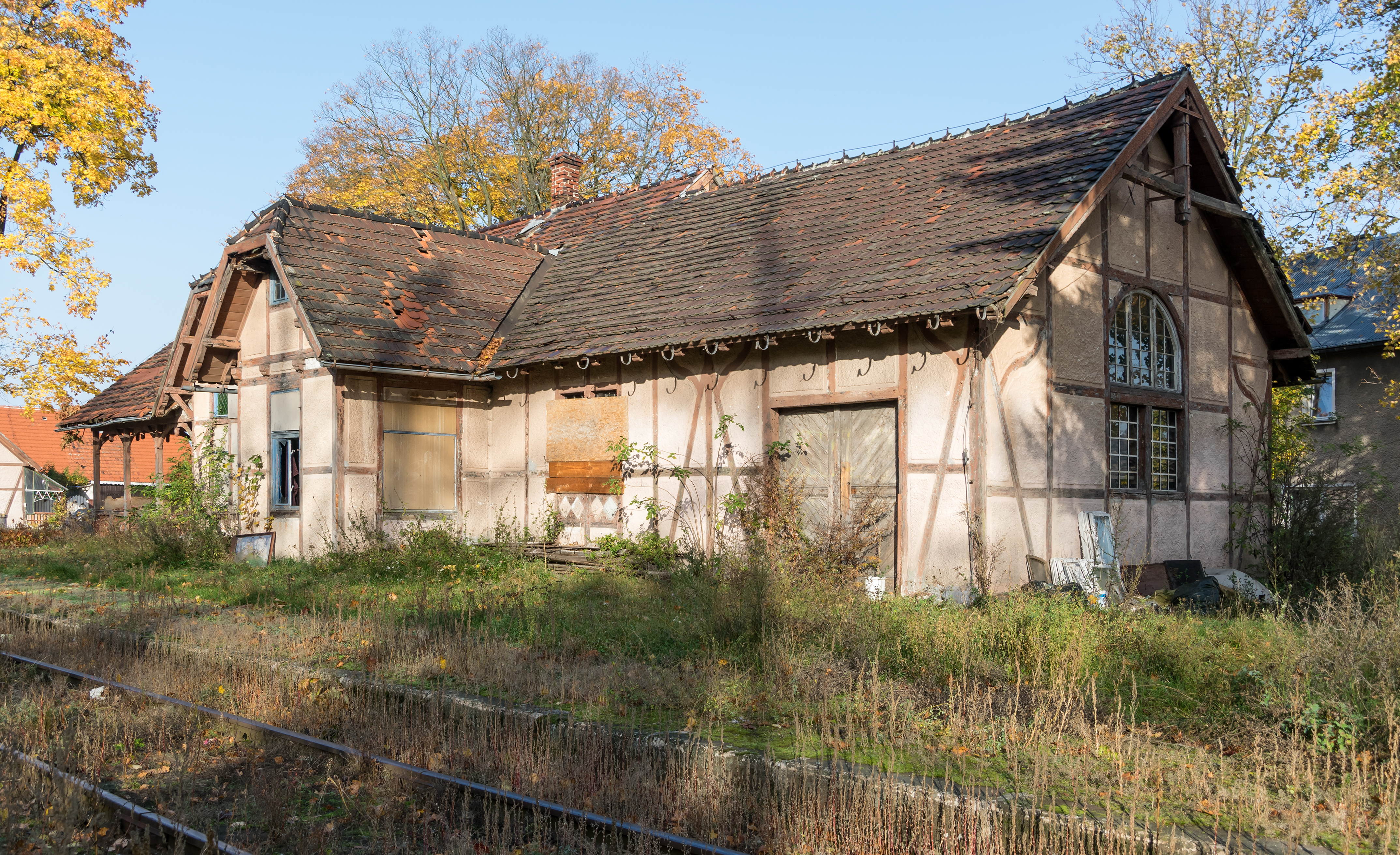 Train station in Ołdrzychowice Kłodzkie